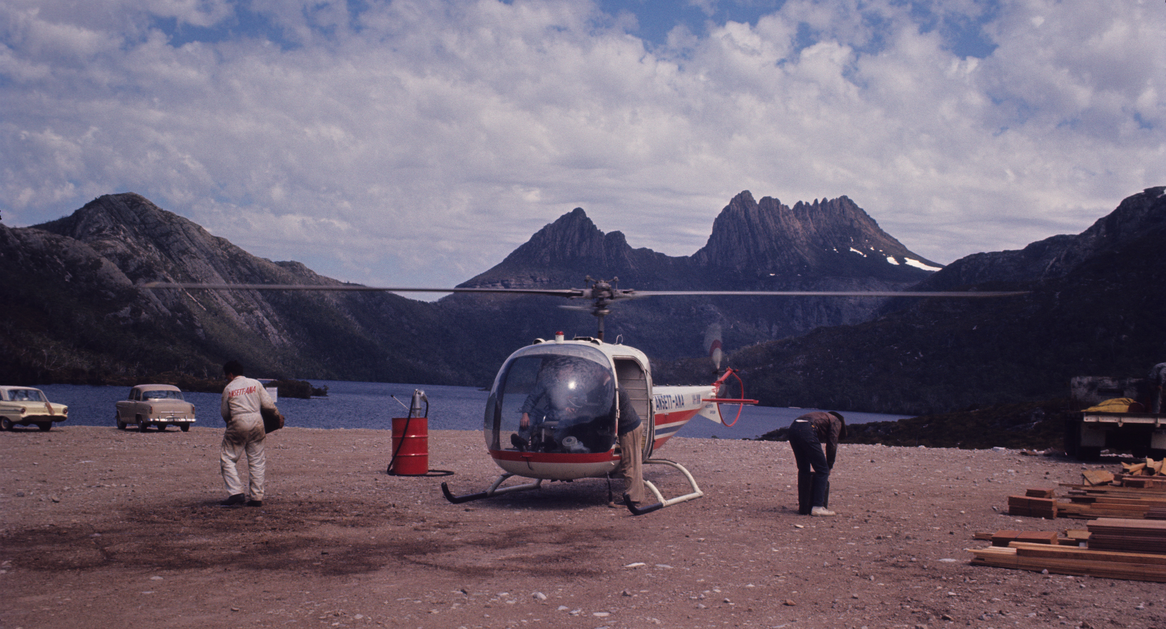 Ansett-ANA helicopter at Dove Lake carpark, Cradle Mountain, 31 October 1965, with material for Scott-Kilvert Memorial Hut at Lake Rodway.